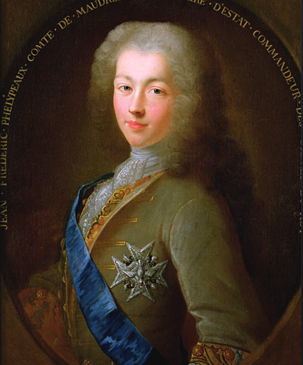 Jean Frederic Phelypeaux Count of Maurepas